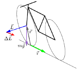 Bicycle, forces, torques and angular moments, drawn to explain gyroscopic effect. 2006.